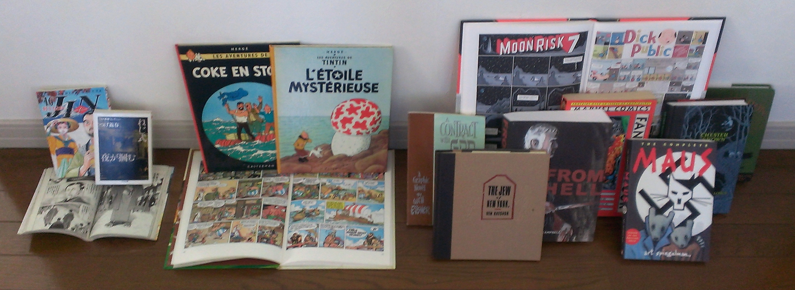 Comparison of book-form comics from different cultures. Left group (Japanese): left, Jin volume 16 tankōbon; right, Complete Yoshiharu Tsuge Volume 1 bunkobon; bottom (open), Jin volume 13 tankōbon Middle group (Franco-Belgian): left, Coke en Stock (Les Aventures de Tintin); left, L'Étoile Mystérieuse (Les Aventures de Tintin); bottom (open), Astérix chez les Bretons Right group (Anglosphere): back (open), The Acme Novelty Library; foreground, from left, A Contract with God, The Jew of New York, From Hell, Fantastic Four volume 2, Complete Maus, Ed the Happy Clown, Wimbledon Green